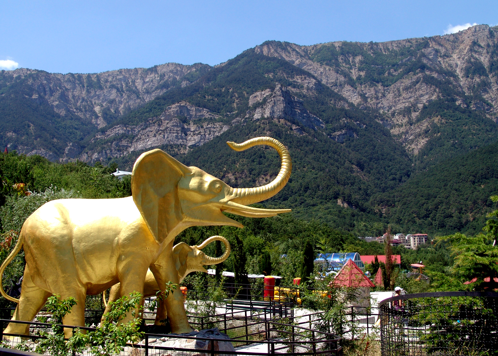 View of zoo in Yalta (Crimea) Ukraine with mountains in background